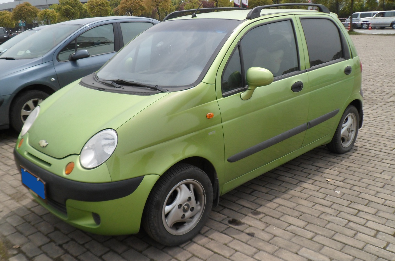 Chevrolet Spark M150 photographed in Anting, Shanghai municipality, China.